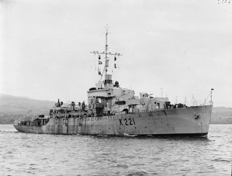 Photograph of River class frigate HMS Chelmer, on the River Clyde.